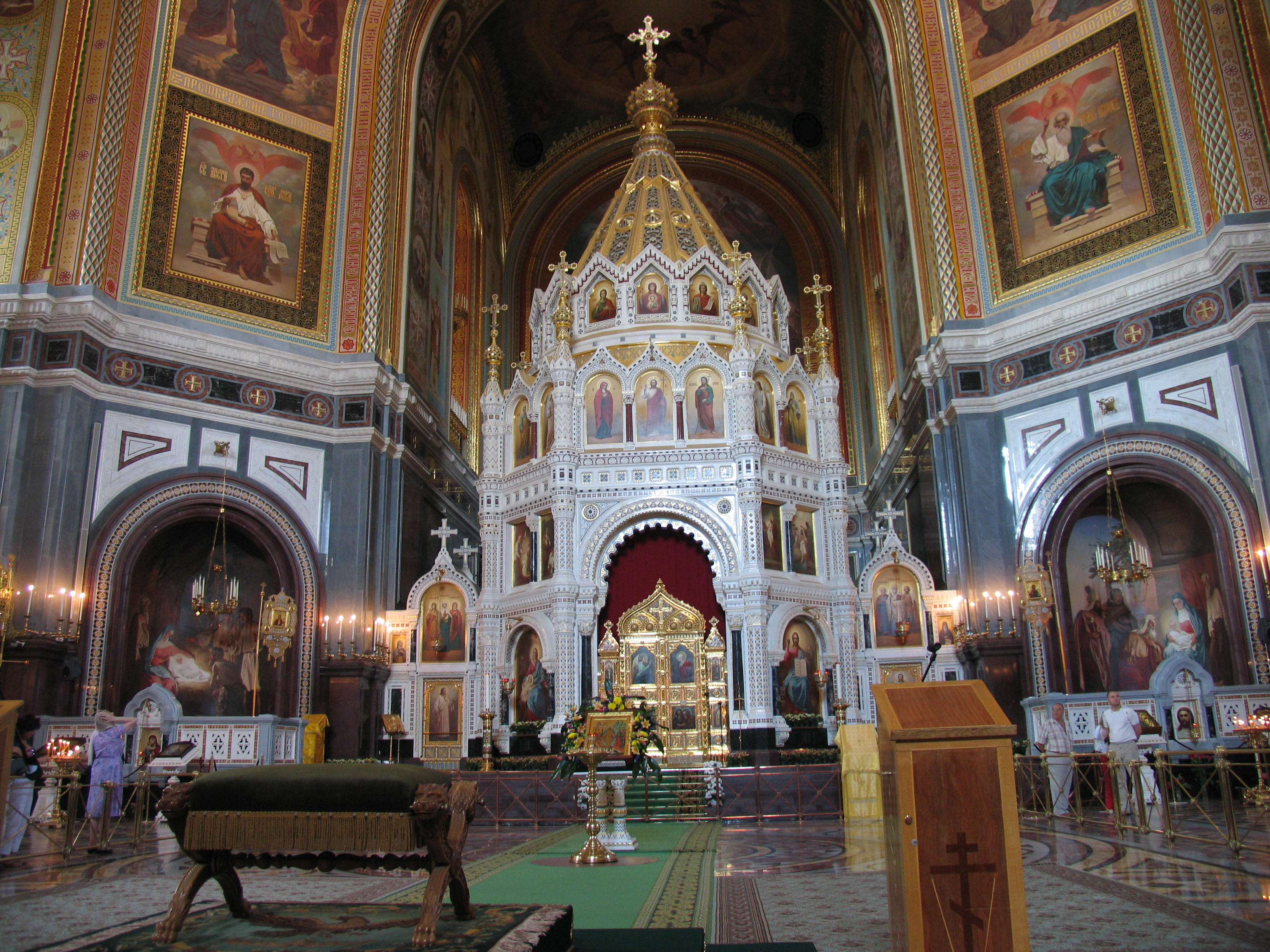 Cathedral of Christ the Saviour in Moscow